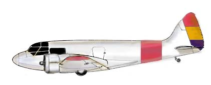 Illustration of the Airspeed AS.8 Viceroy in Spanish Republican Air Force markings.